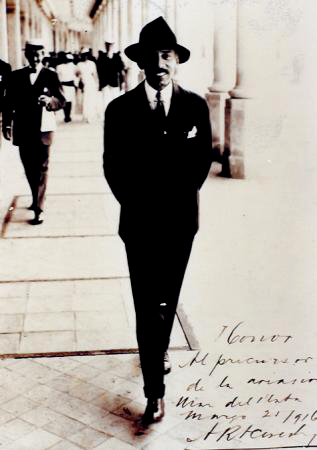 The inventor and pioneer of aviation Alberto Santos Dumont